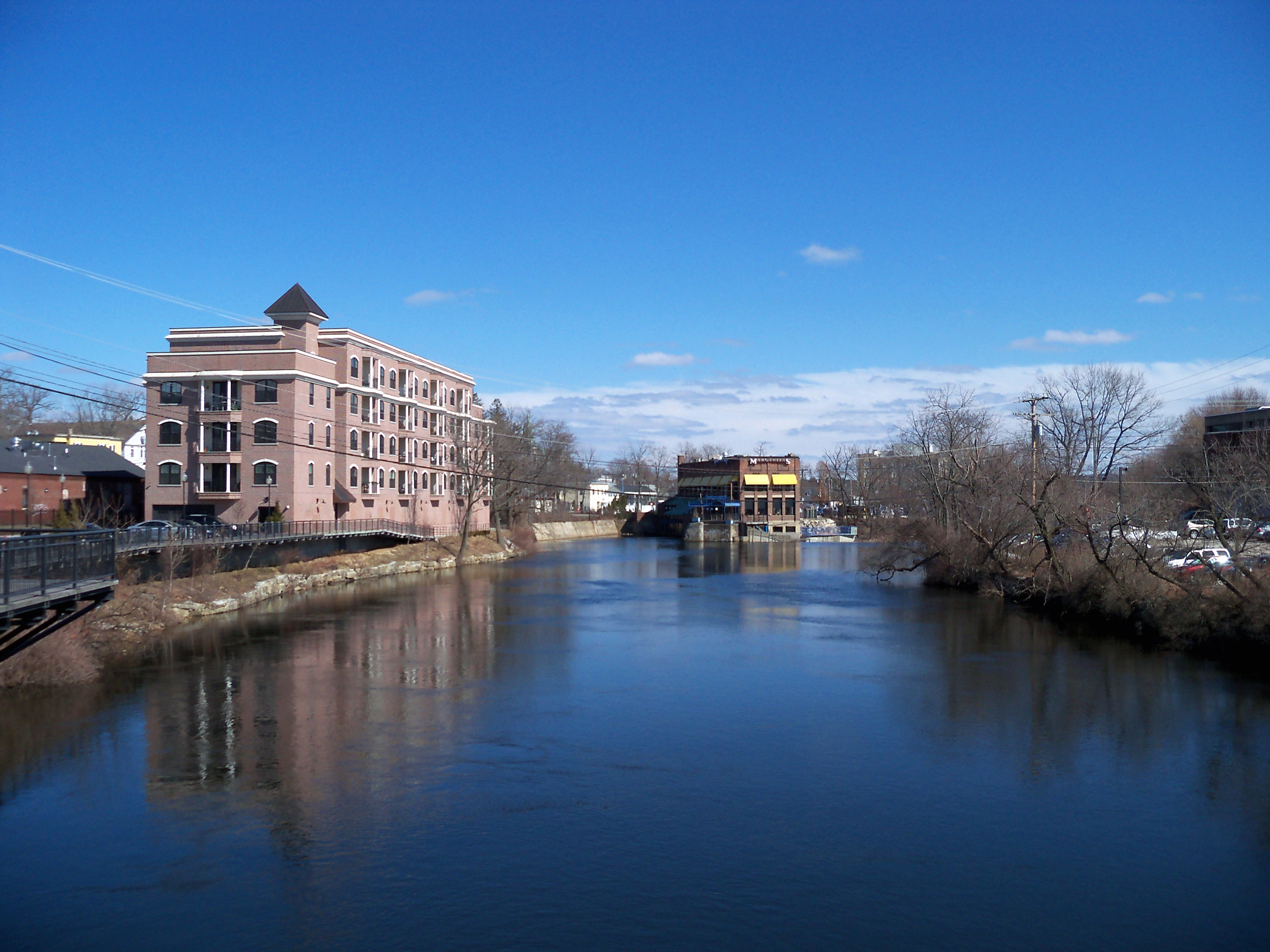 Nashua River in Nashua, New Hampshire, USA.